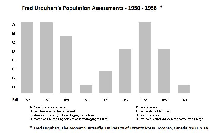 Urquharts population estimates